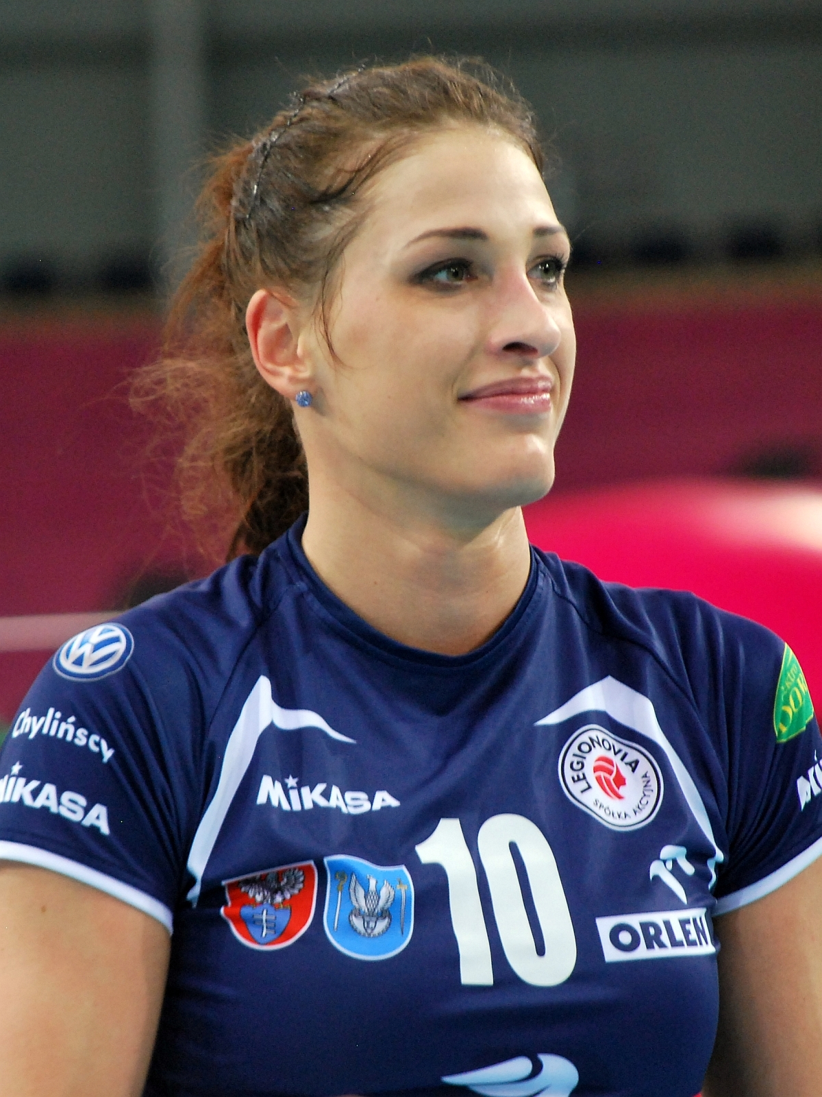 Berenika Tomsia, volleyball player from Poland